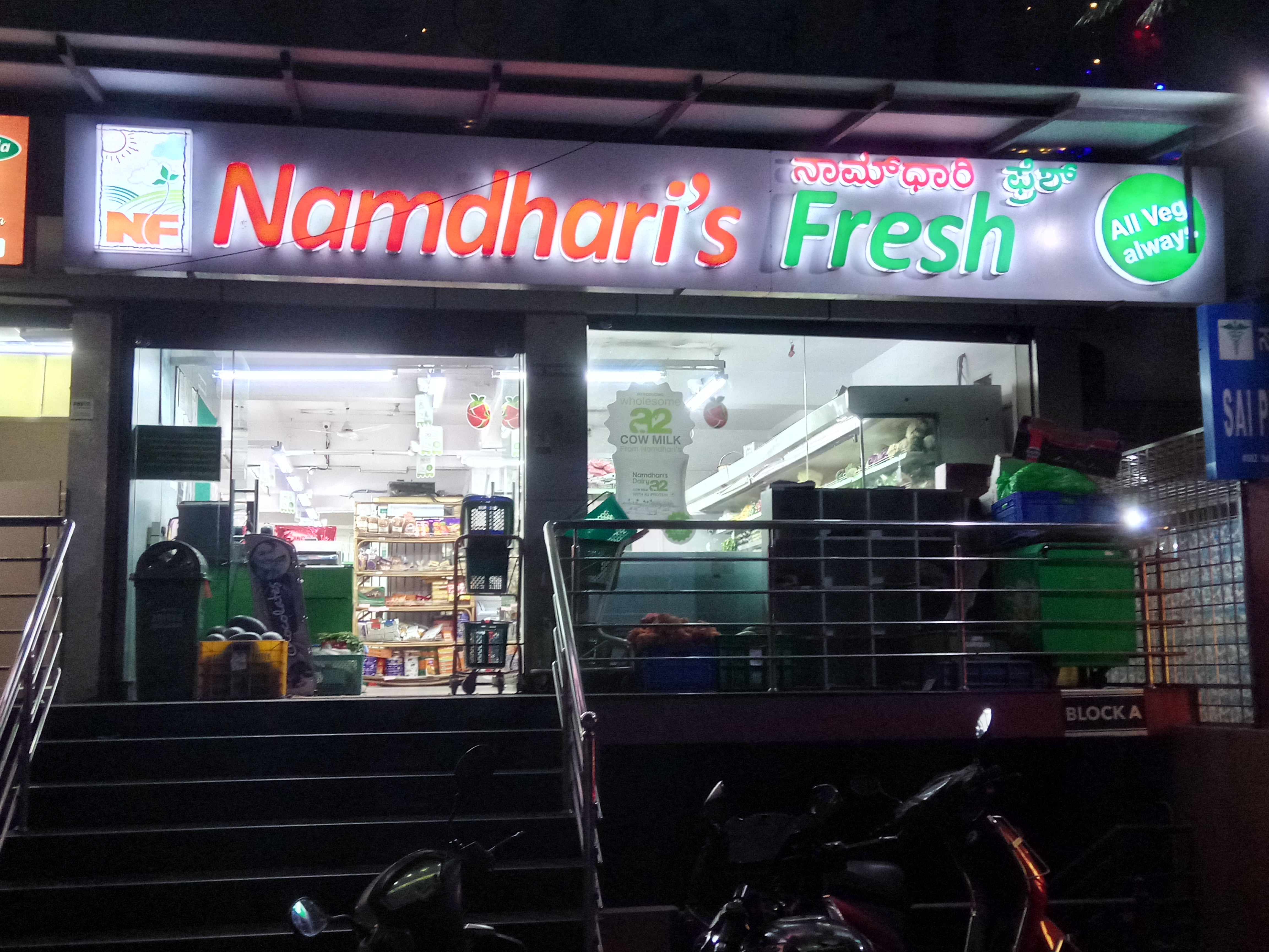 Namdhari's Fresh, grocery store chain